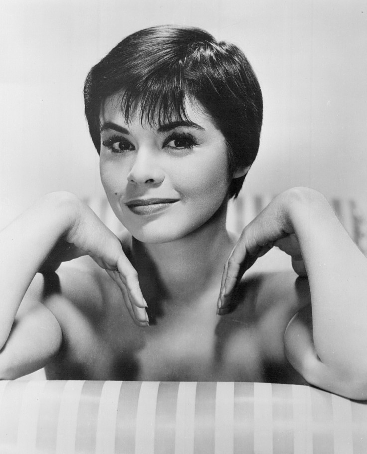 Photo of actress-dancer Neile Adams. The item has no copyright markings on it as can be seen in the links above.